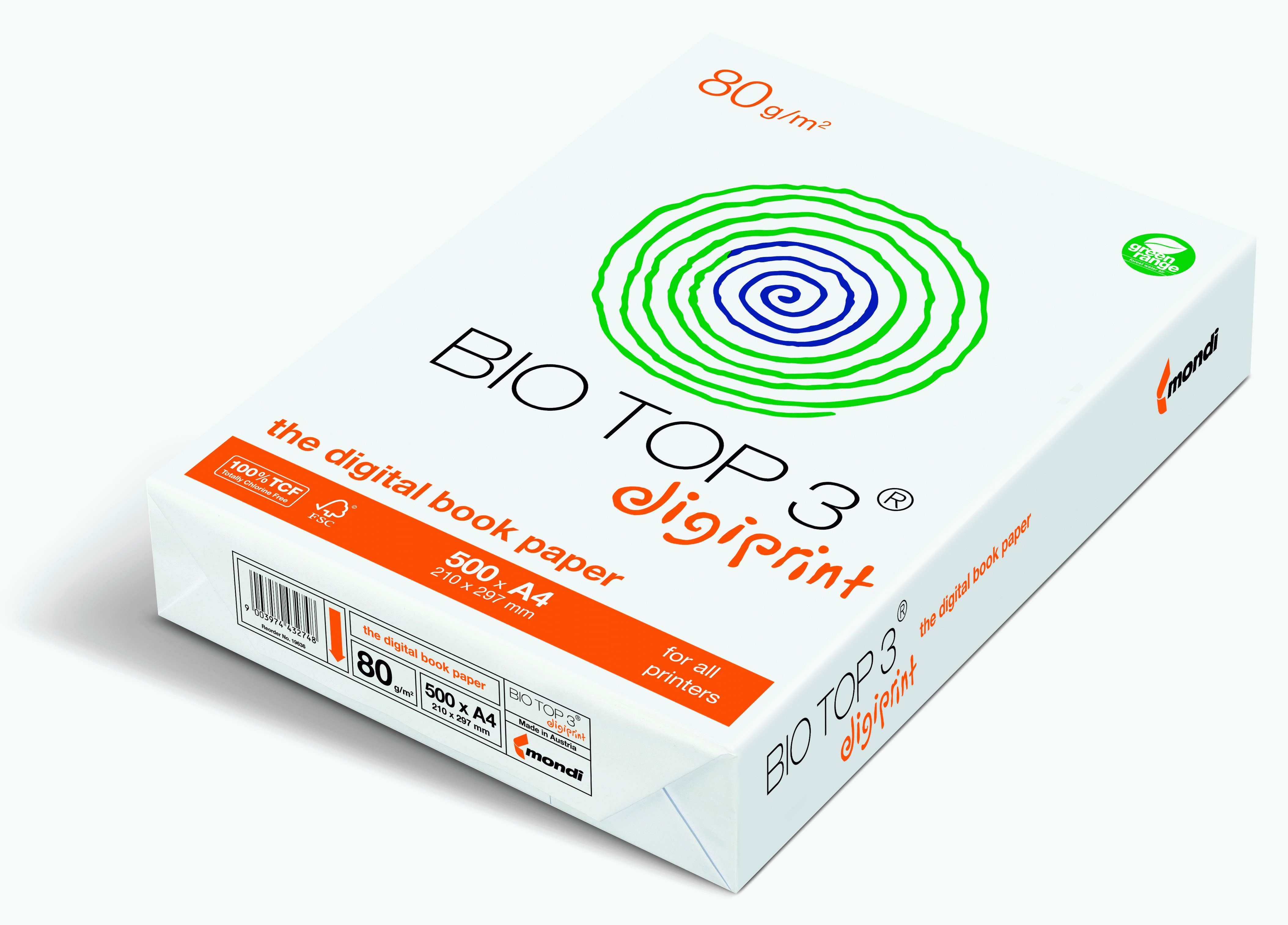 BIO TOP3 digiprint - the digital book paper